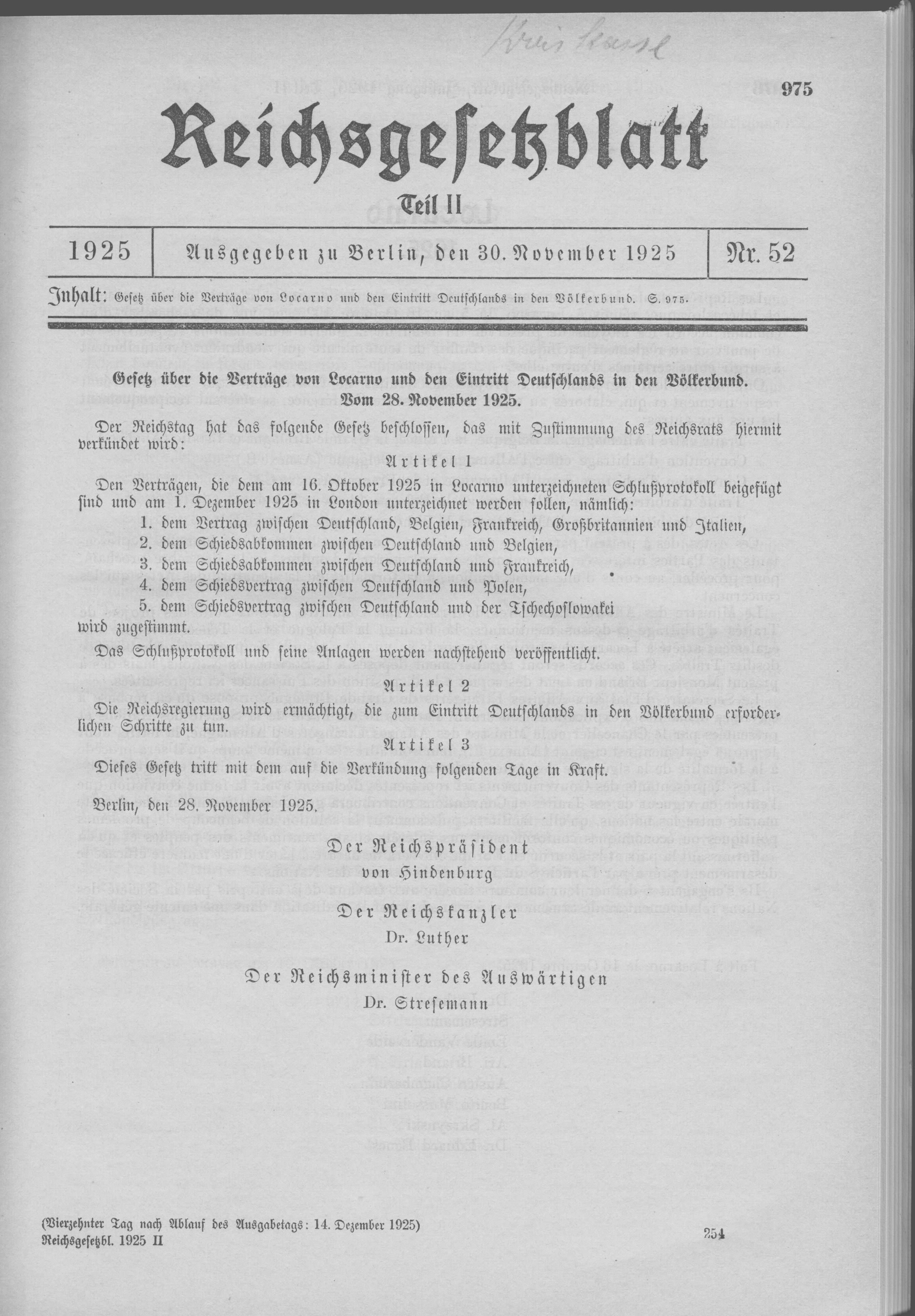 Scan from the Imperial Law Gazette of Germany, 1925, part 2